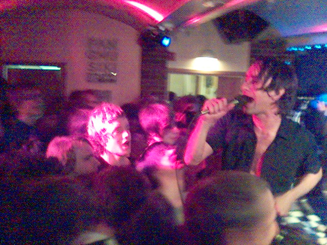 Sci-Fi SKANE live at Kalmar_nation,_Uppsala, with the singer Thomas Öberg.